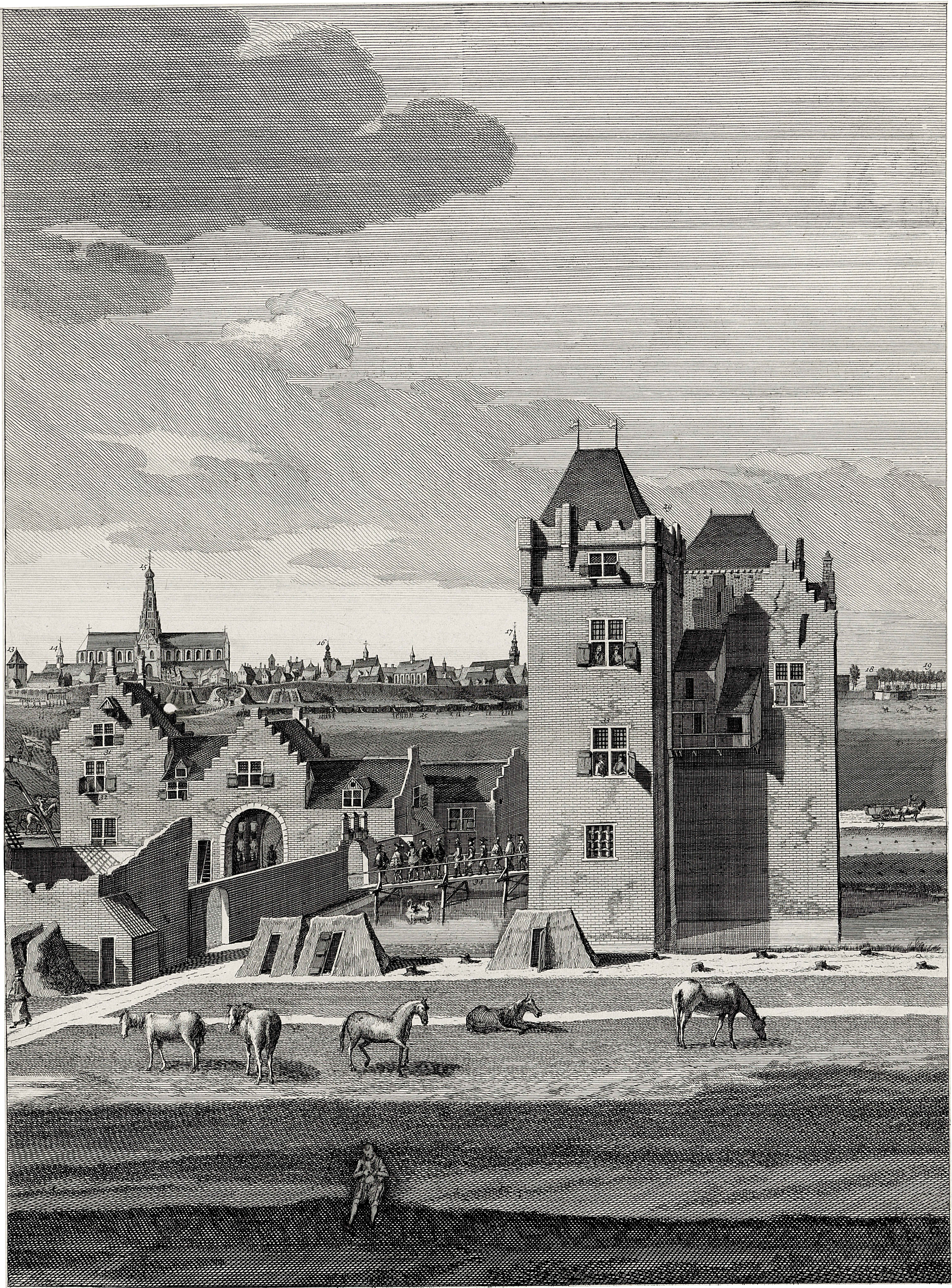 Siege of the city of Haarlem in the years 1572-1573 by the Spanish under Fadrique Alvarez de Toledo (Don Frederick), son of the Duke of Alva. Great representation having an view of the city from the north, in print after a contemporary drawing. To the right is Ter Kleef castle, in the distance the St. Bavo church.